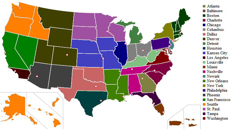 ATF field divisions map